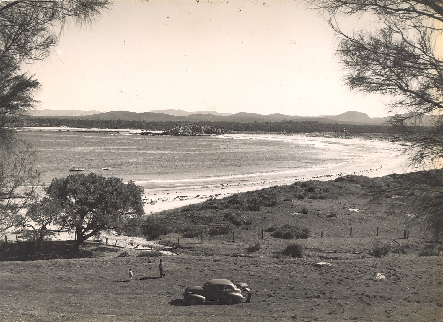 Title: Barling Beach at Tomakin (NSW) Dated: No date Digital ID: Rights: No known copyright restrictions We'd love to if you use our photos/documents. Many other photos in our collection are available to view and browse on our website using